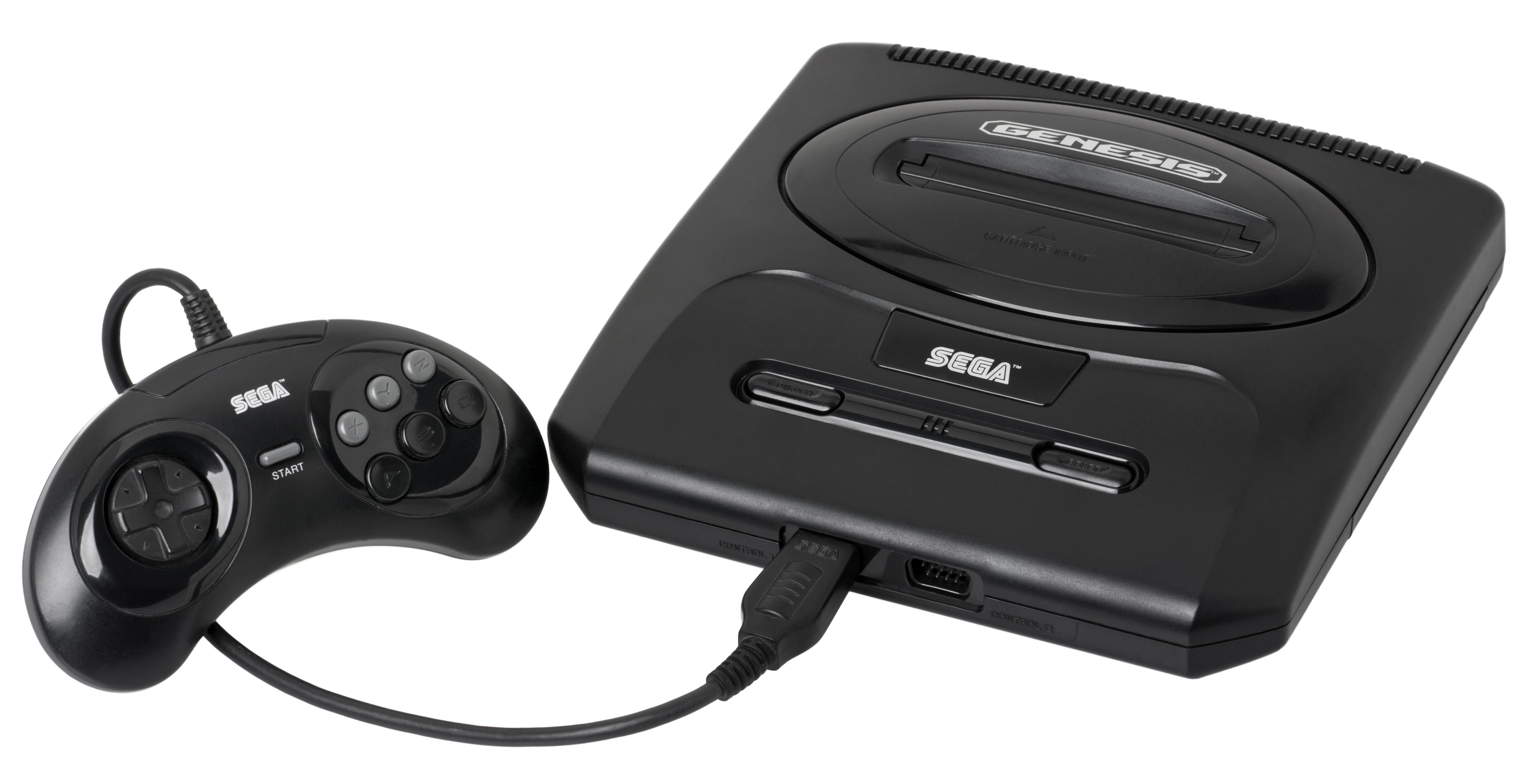 A North American Sega Genesis video game console with 6-button controller. The Sega Genesis is a 16-bit, fourth generation game console that was first released in 1988. This is the second remodel of the console and is shown with a 6-button that was released later in the console's life.